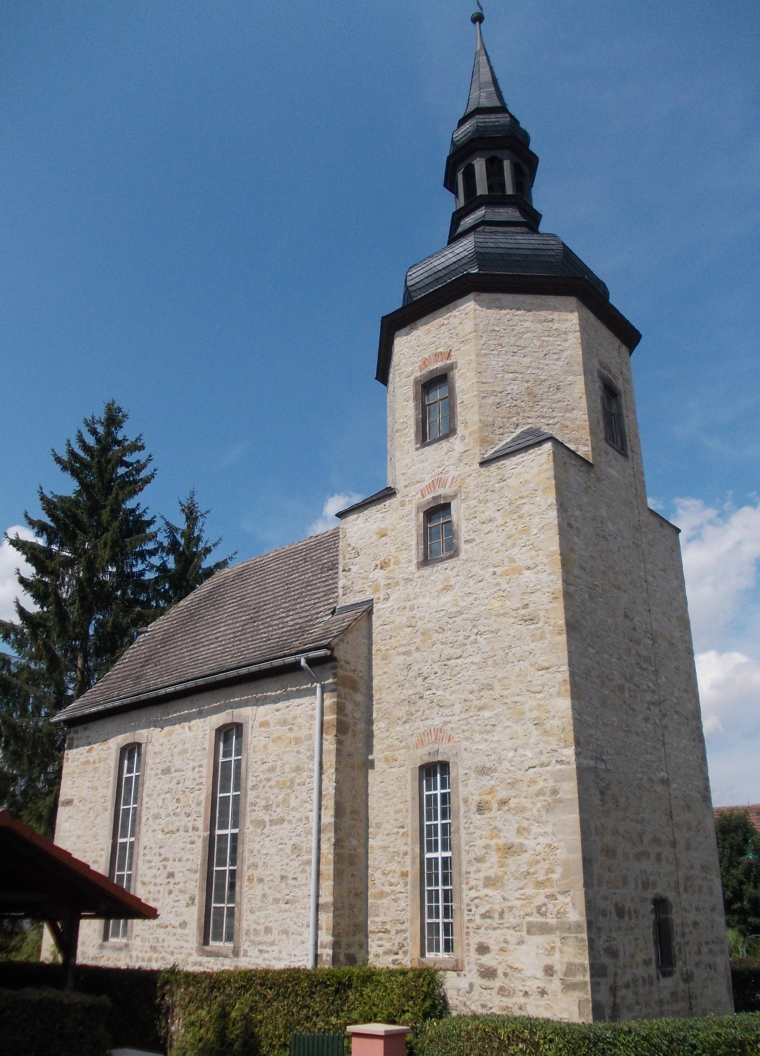 Zäckwar church (Lanitz-Hassel-Tal, district: Burgenlandkreis, Saxony-Anhalt)